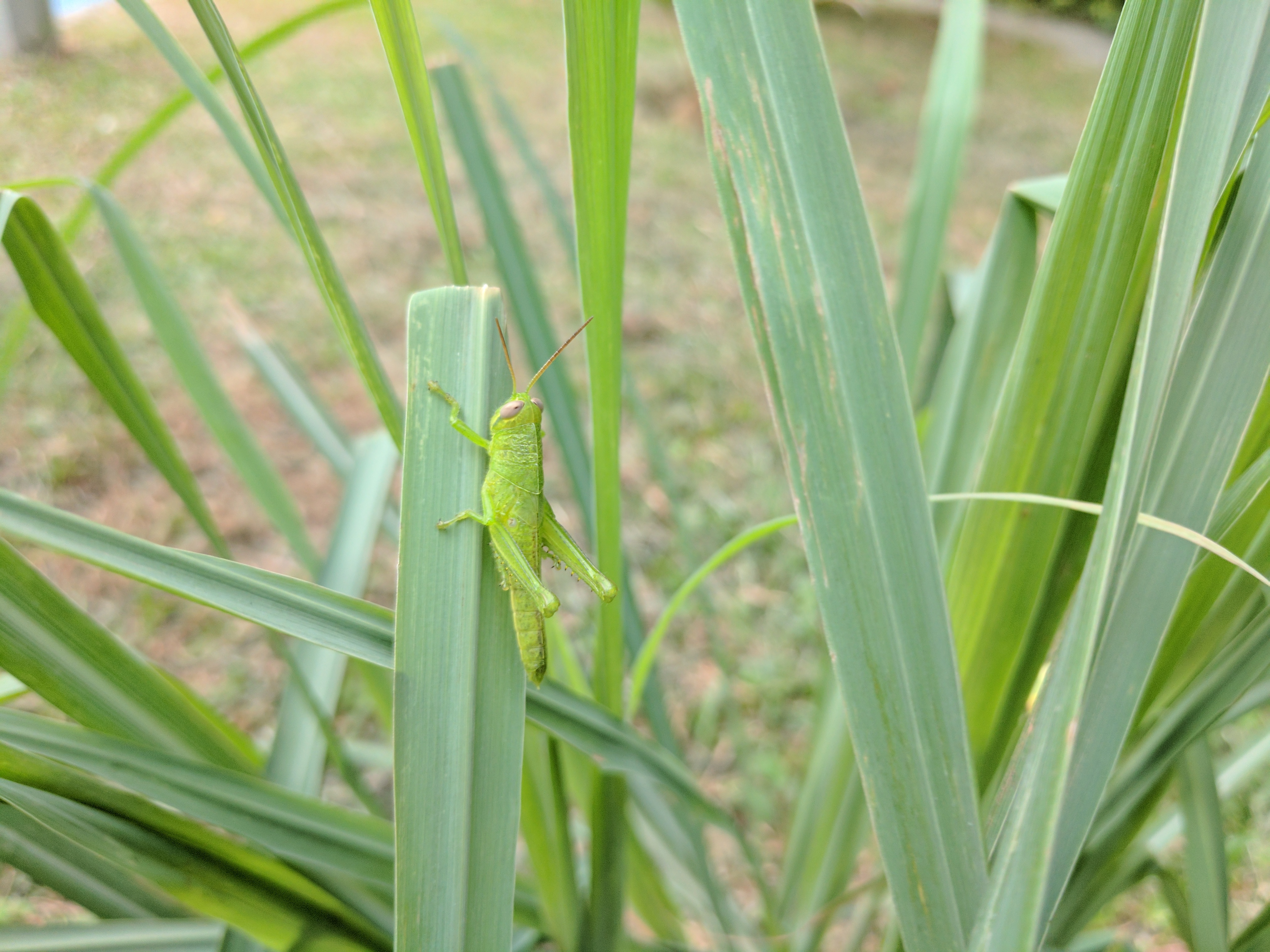 valanga nigricornis nymph on cymbopogon citratus